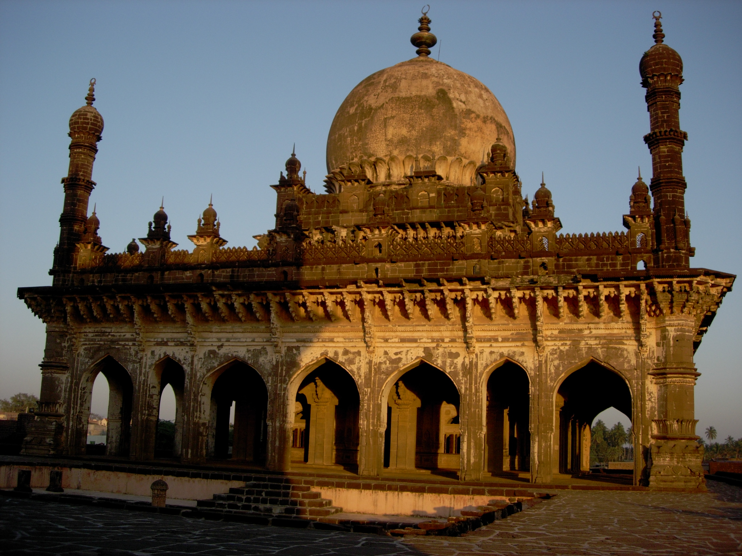 Mosque (17th century) in the mausoleum complex Ibrahim Rauza at Bijapur (Karnataka, India)